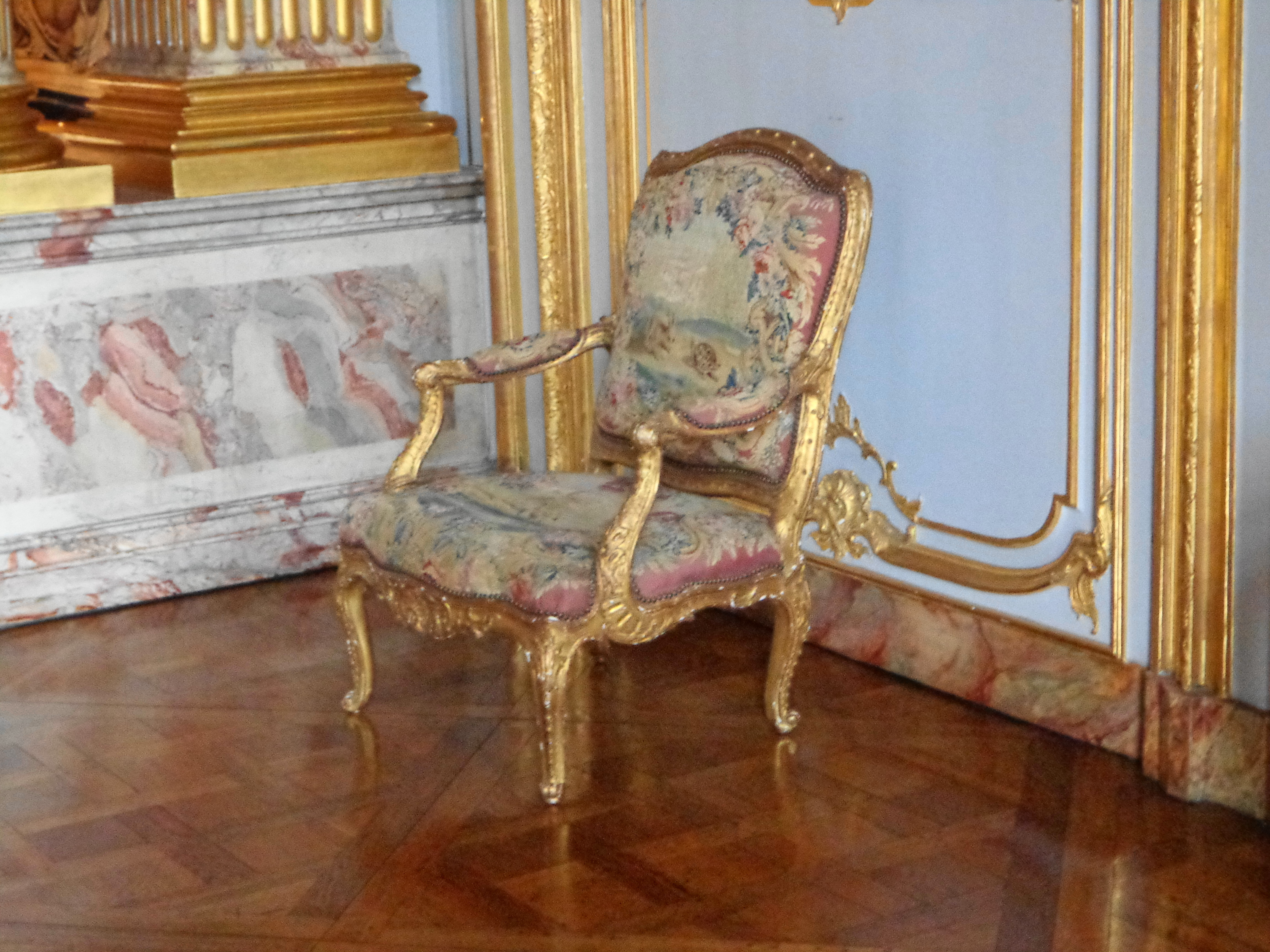 And another stroll through these magnificent apartments